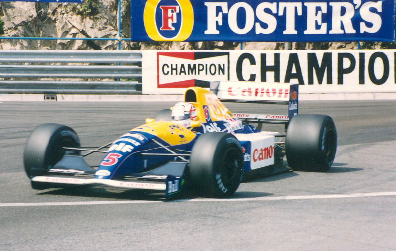 Nigel Mansell at Monaco GP, may 12th 1991